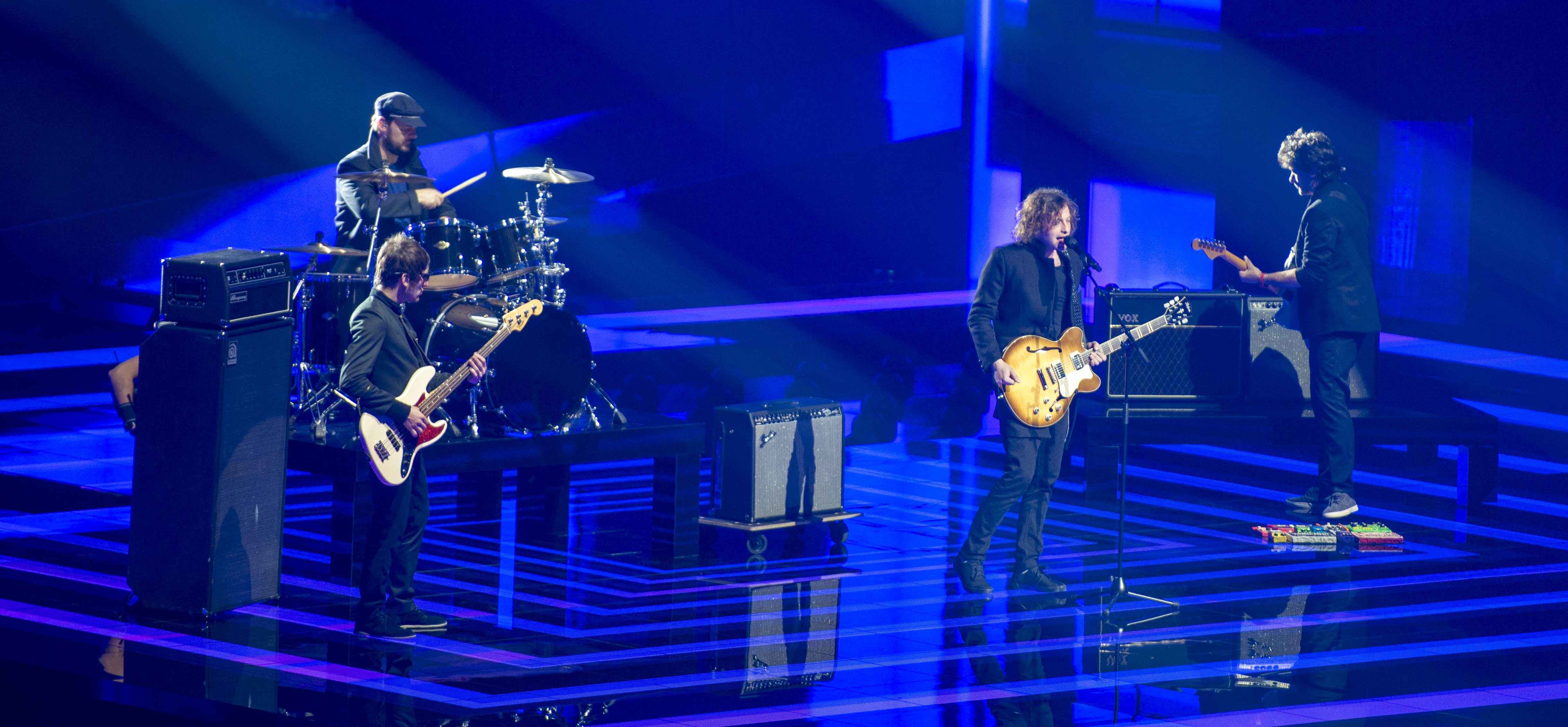 Nika Kocharov & Young Georgian Lolitaz representing Georgia with the song "Midnight Gold" during a rehearsal before the second semi final of the Eurovision Song Contest 2016 in Stockholm. (Help translate this text)